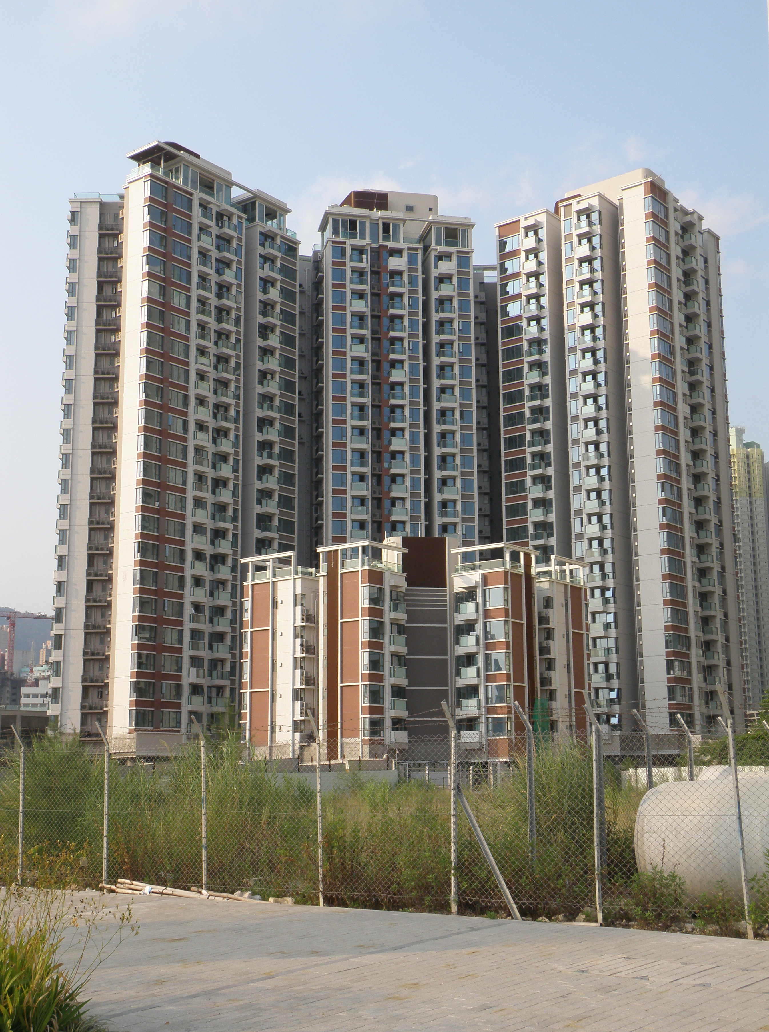 De Novo in Kai Tak, Hong Kong.